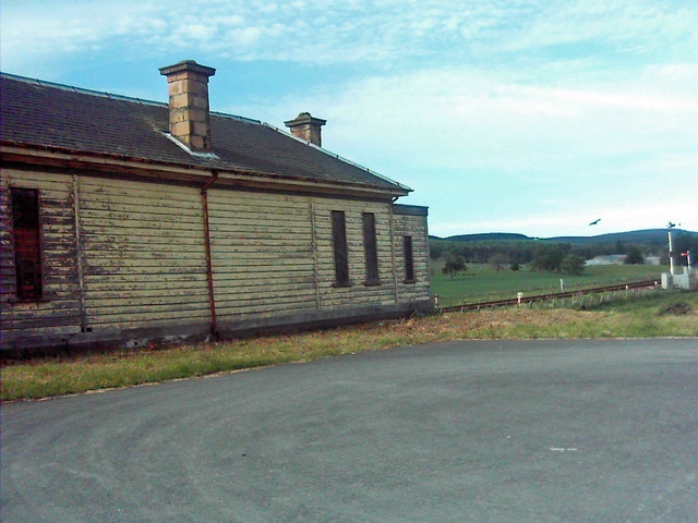 Kennethmont Railway Station Another railway station that could be reopened to improve the public transport links. It's a long time since Kennethmont Railway station saw any passengers but it could easily operate a commuter service.